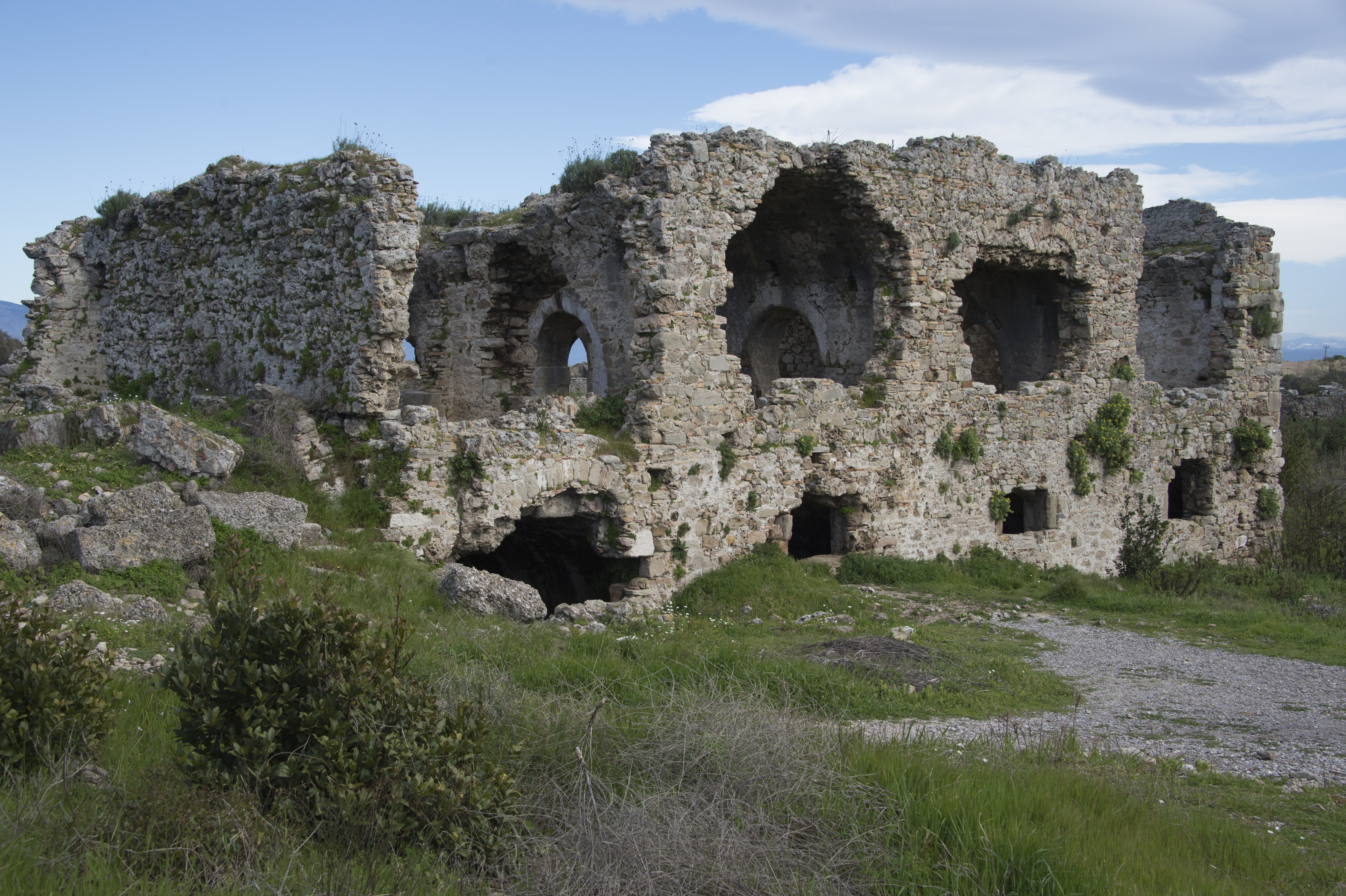 This building has tentatively been identified as a hospital, because its structure is like that of later Seljuk hospitals. It has two floors, each with five vaulted rooms. It was constructed in Byzantine times, during the 6th century. It was known Emperor Justinian built a hospital for the healer-saint Cosmas in Pamphylia, but it is not known if this was in Side. Most visitors will miss this, as it stands in the more distant parts of the old city.